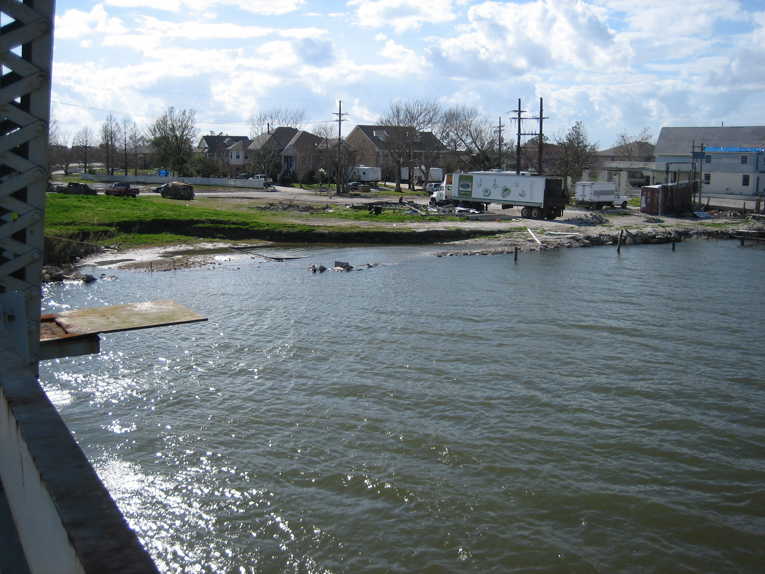 New Orleans after Hurricane Katrina: Venetian Isles neighborhood was devastated by storm surge flooding. View from portion of still closed Hwy 90 Bridge, showing errosion of Chef Pass.